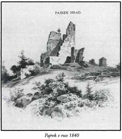 Historic illustration of the ruins Pajrek/Bayereck castle at Nýrsko.